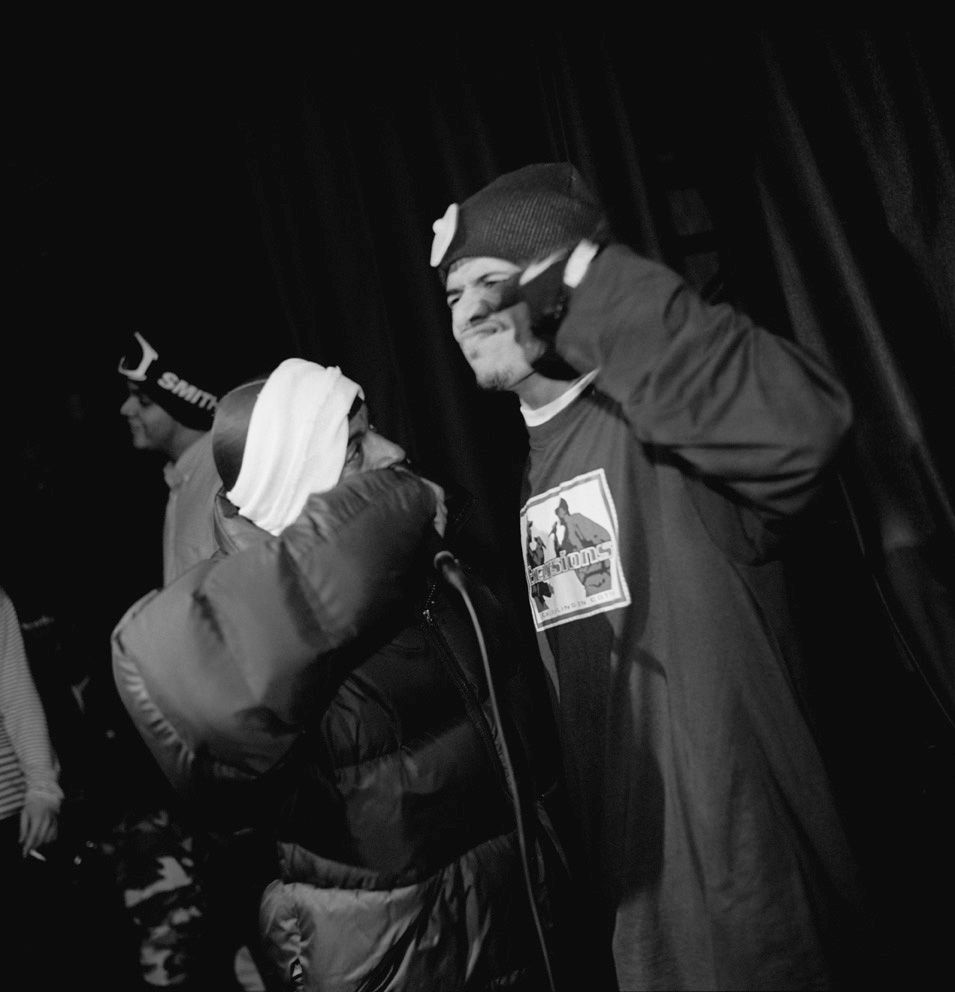 Nuyorican Poets Cafe, NYC 1998, Freestyle battle